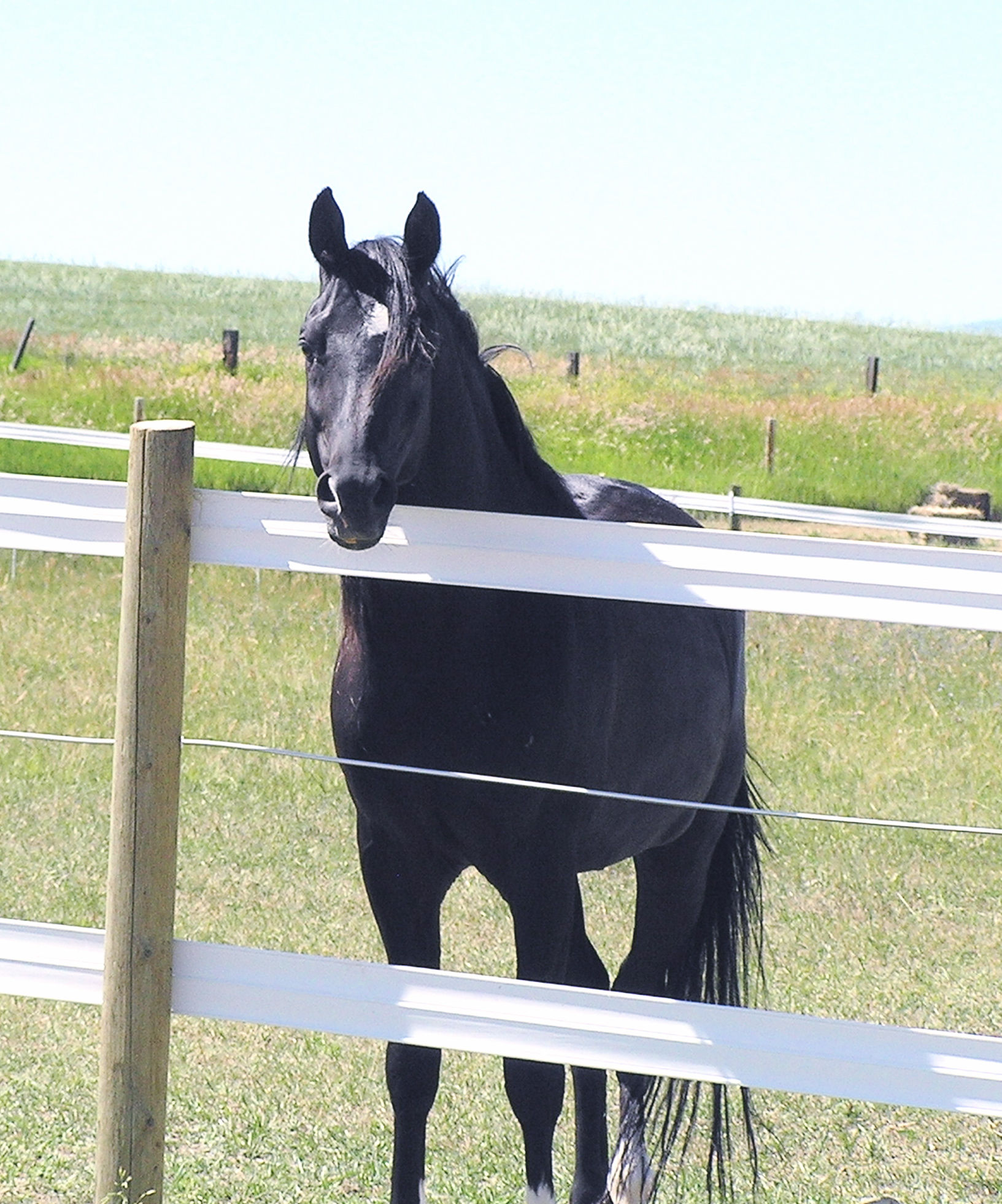 DNA tested homozygous black Arabian Stallion standing behind a vinyl fence consisting of one vinyl wire and two vinyl "rails"